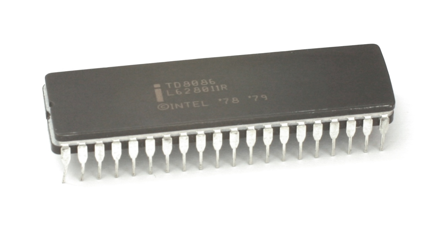 CPU Intel TD8086.